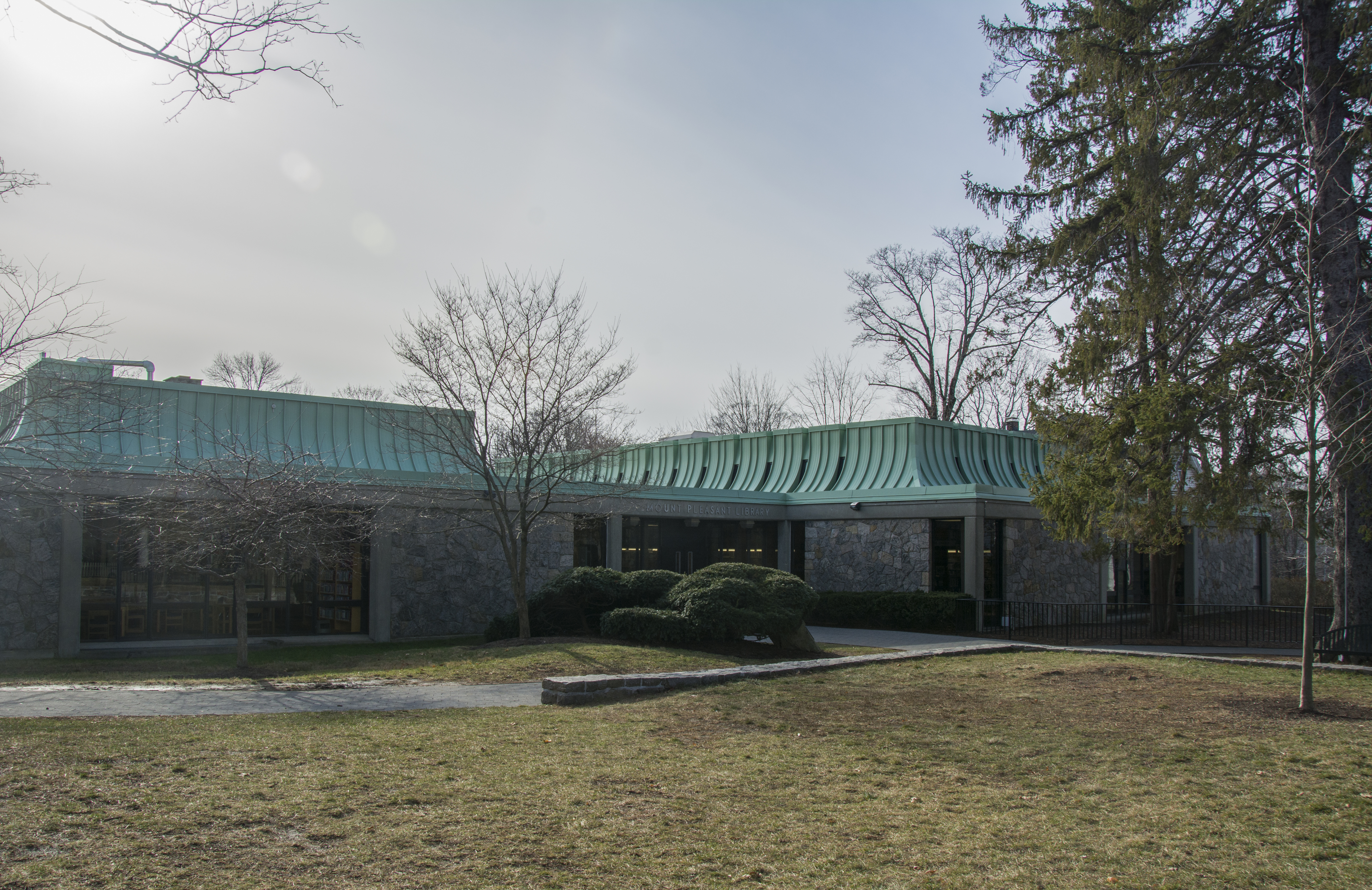 The Mount Pleasant Public Library, Mount Pleasant, New York. Taken and uploaded on the below date.